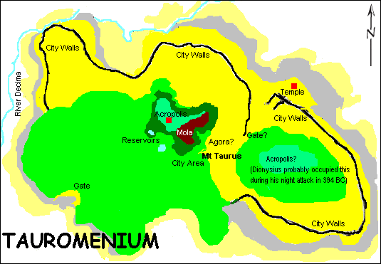 The area of Tauronemium in Sicily.